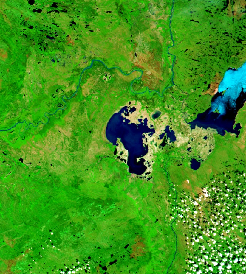 Peace-Athabasca Delta with Lake Claire and mouths of Peace River and Athabasca River.